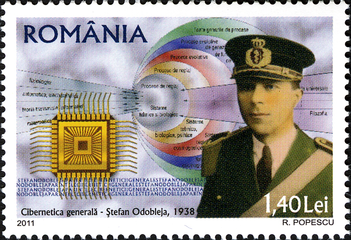 Ștefan Odobleja, Stamps of Romania, 2011